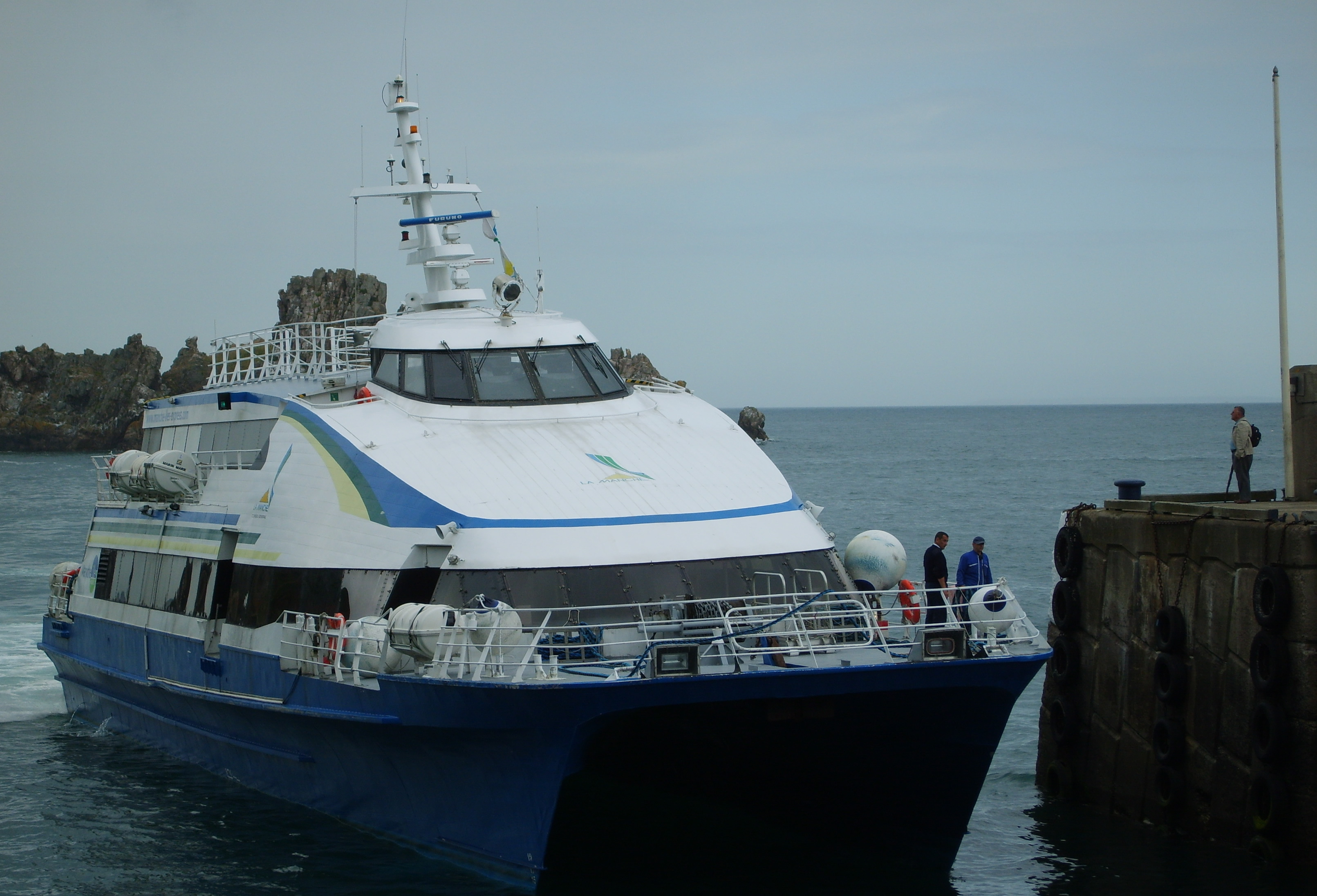 The high speed catamaran service from the island of Jersey as it arrives on the island of Sark. This service runs during the summer months and is mainly used by tourists.